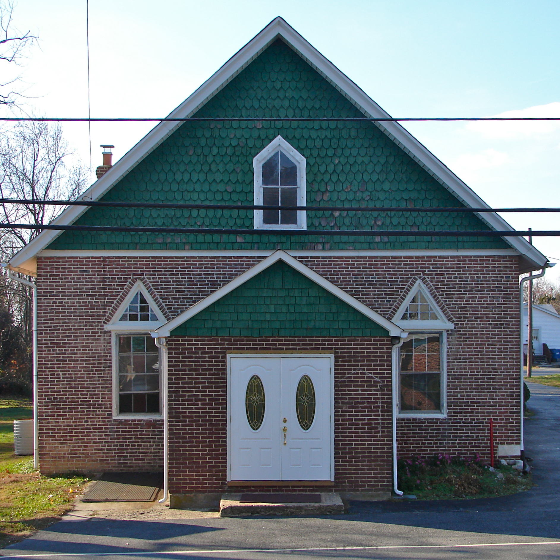 Old Fort Church on the NRHP since August 19, 1983. On Old Baltimore Pike (DE 7) in Christiana, Delaware. Front View (from East)